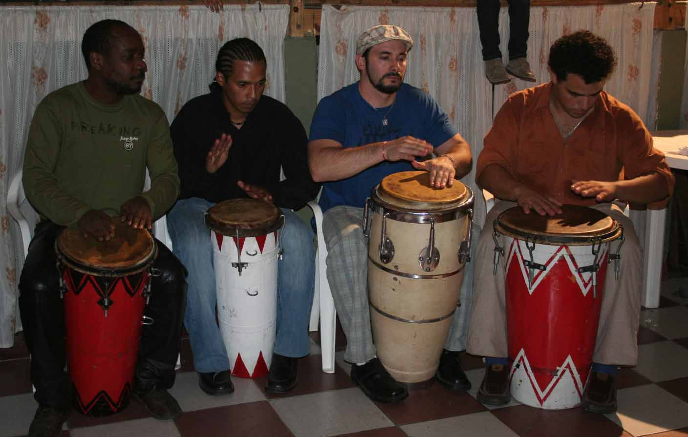 Buenos Aires tamboreros of candombe in a celebration of the Misibamba Association. Afroargentina community of Buenos Aires.